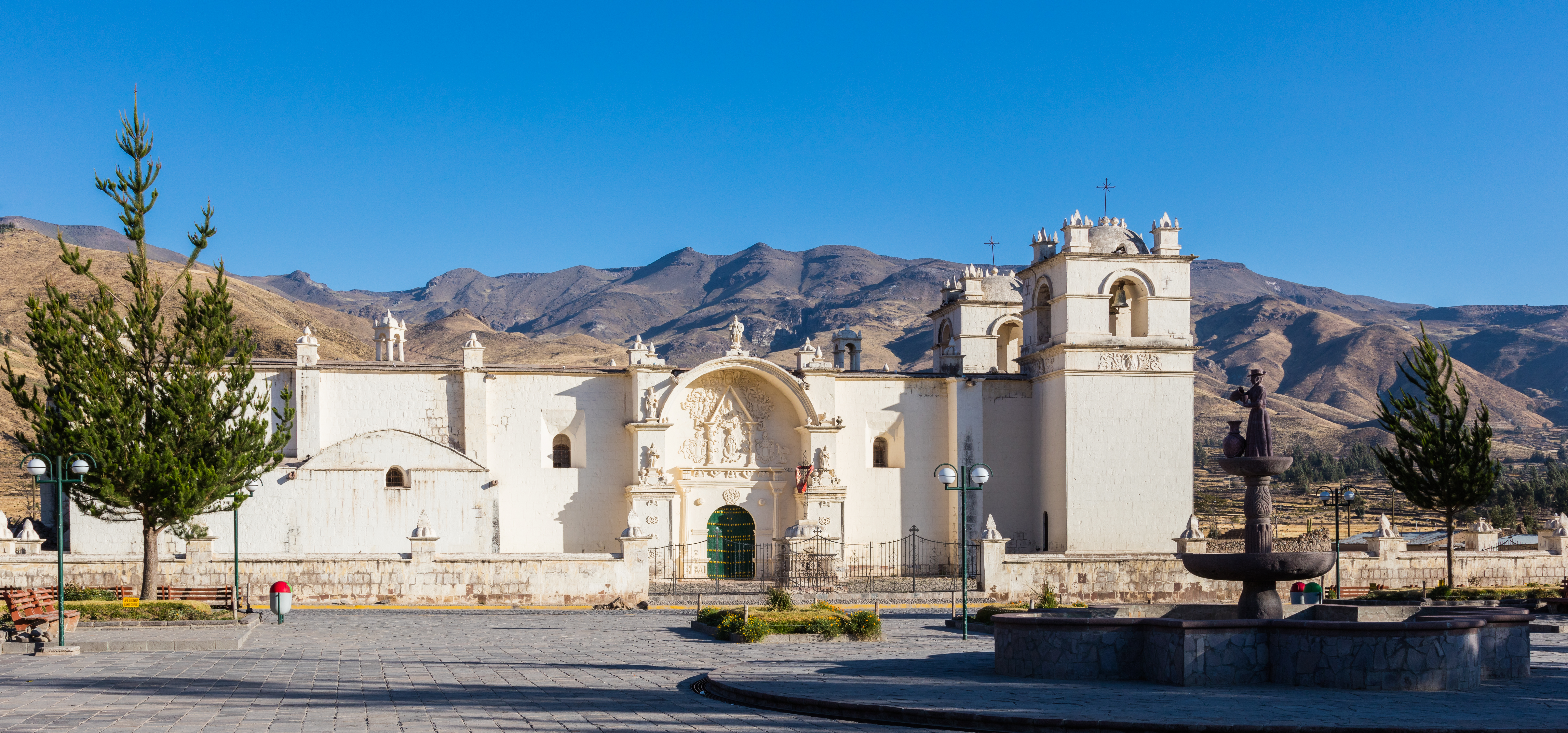 Immaculate Conception church of Yanque, Colca Canyon, Peru